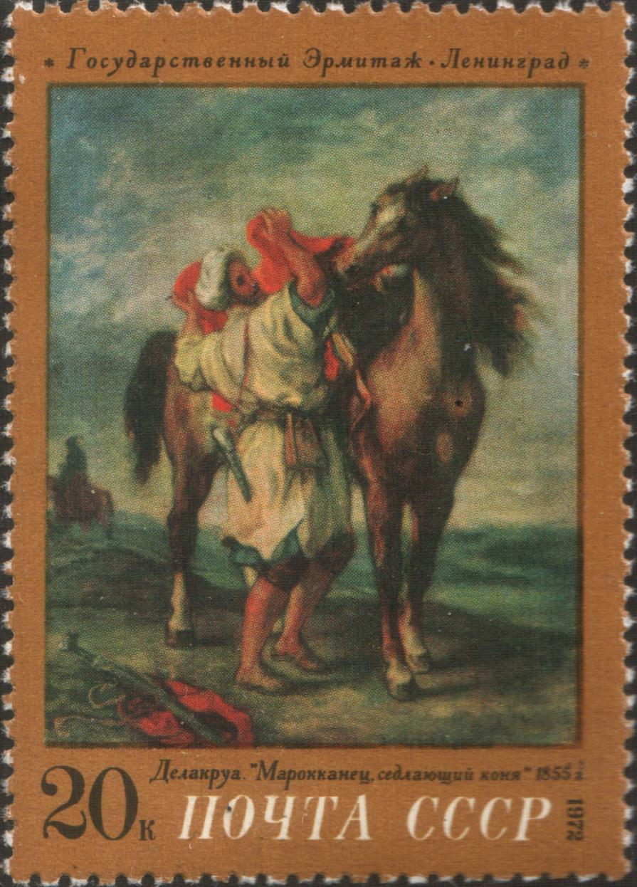 USSR stamp